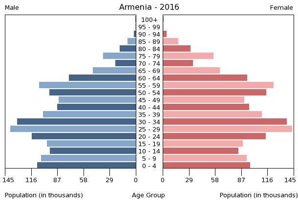 A population pyramid illustrates the age and sex structure of a country's population and may provide insights about political and social stability, as well as economic development. The population is distributed along the horizontal axis, with males shown on the left and females on the right. The male and female populations are broken down into 5-year age groups represented as horizontal bars along the vertical axis, with the youngest age groups at the bottom and the oldest at the top. The shape of the population pyramid gradually evolves over time based on fertility, mortality, and international migration trends.